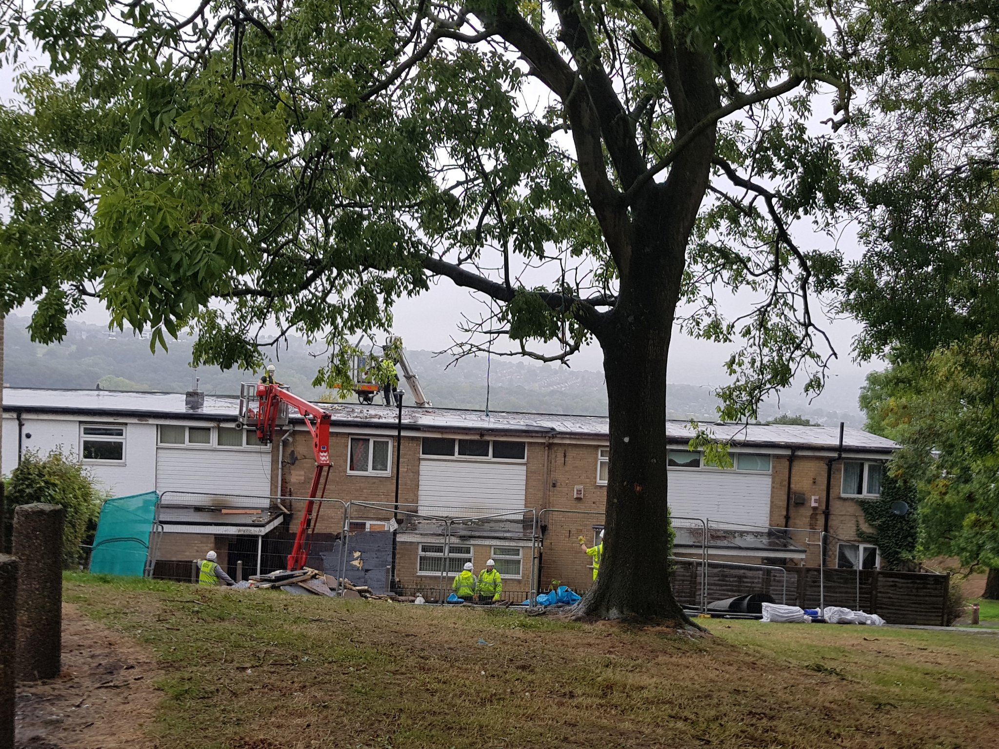 Repairs underway to a house in Sheffield that had had its roof ripped off by Storm Ali's high winds on 19 September. When this photo was taken, the city was being lashed by heavy rainfall from Storm Bronagh, which later caused further damage in the city from extensive flooding.